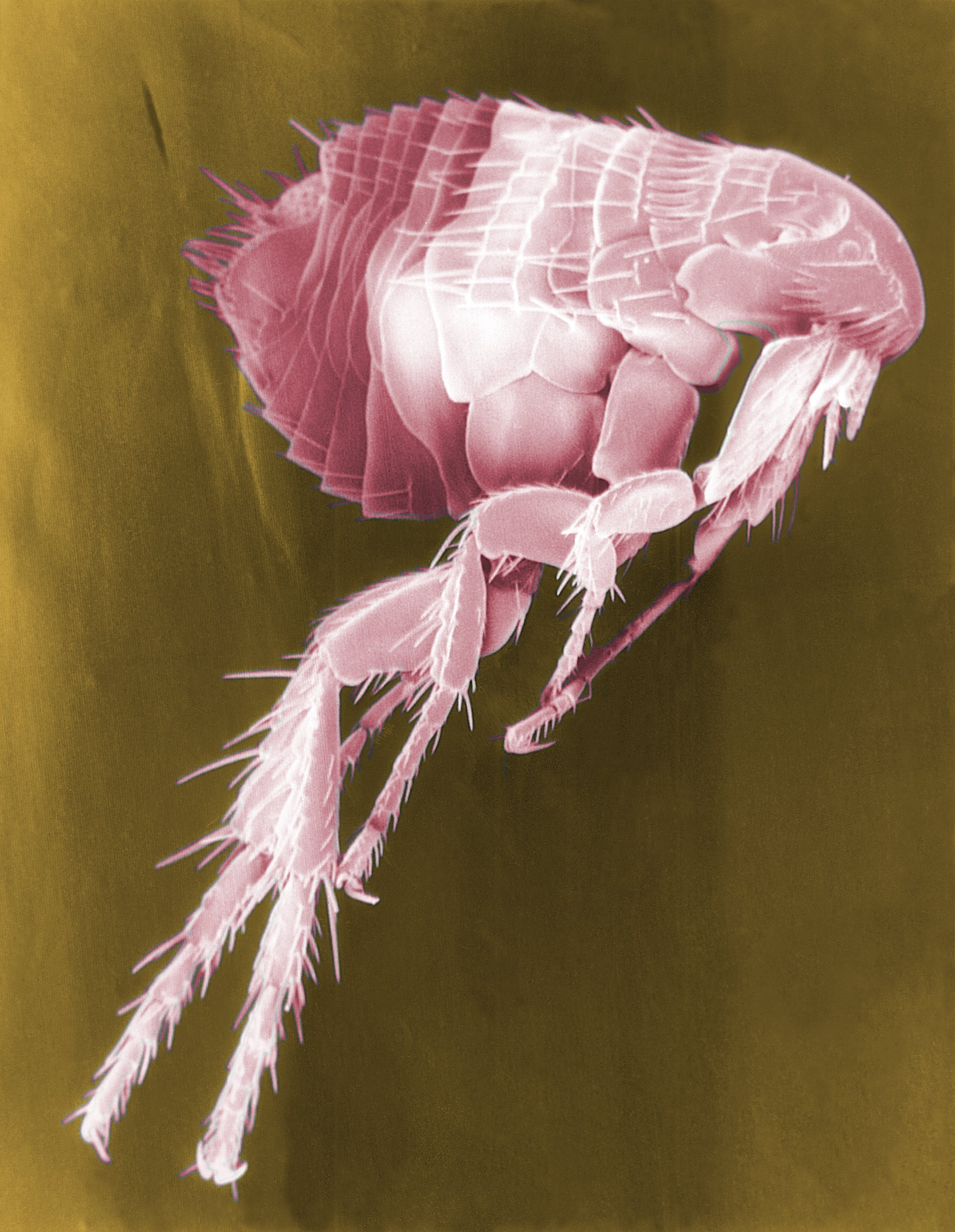 False colors Scanning Electron Micrograph of a Flea. Fleas are known to carry a number of diseases that are transferable to human beings through their bites. Included in these infections is the plague, caused by the bacterium Yersinia pestis.